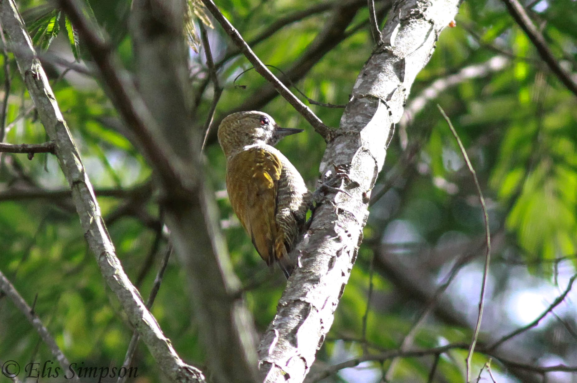 Little Woodpecker